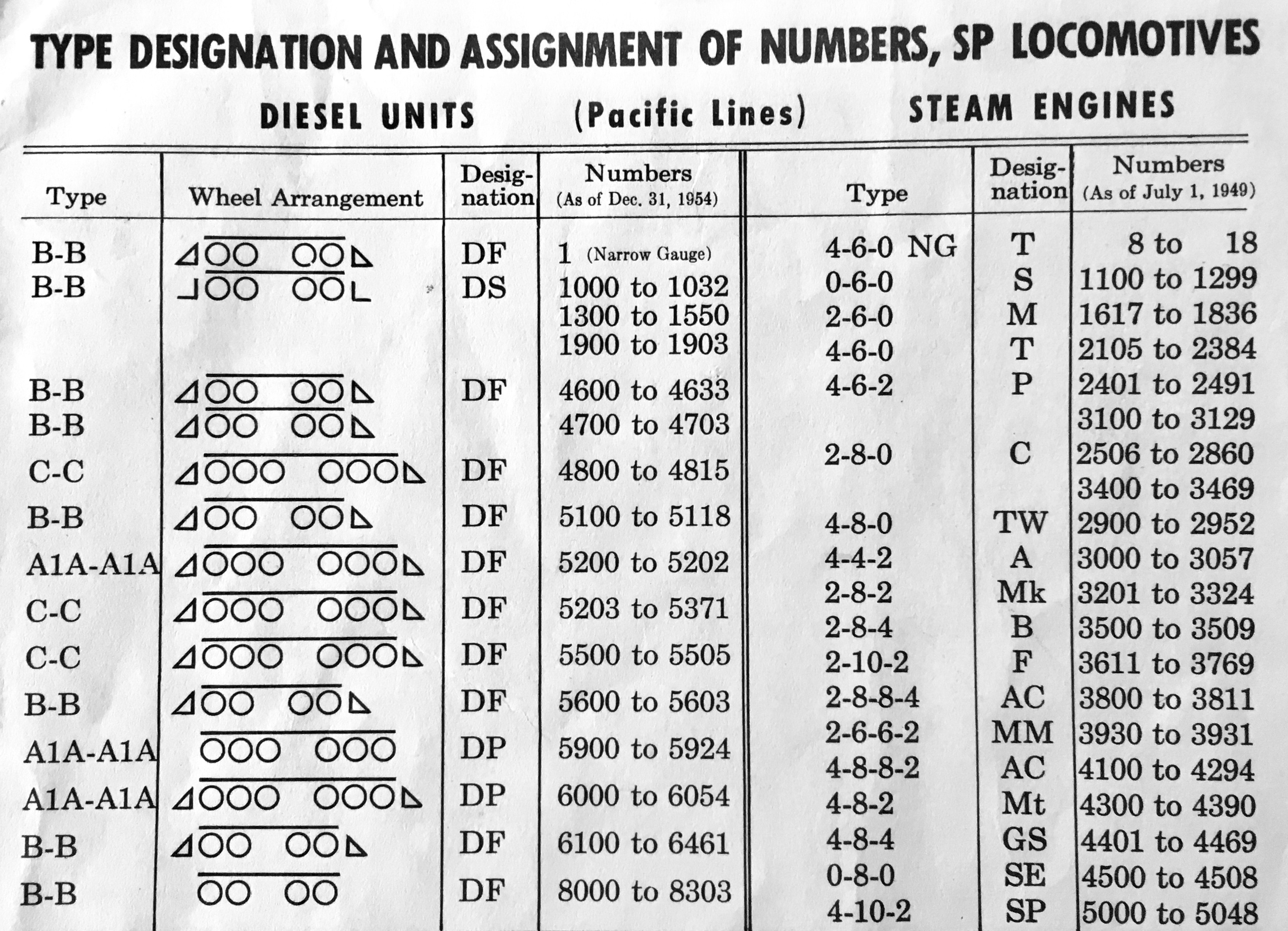 "A" indicates one driving axle, "B" two, "C" three, "1" idler; "DS" for Diesel Switcher, "DF" Freight, "DP" Passenger